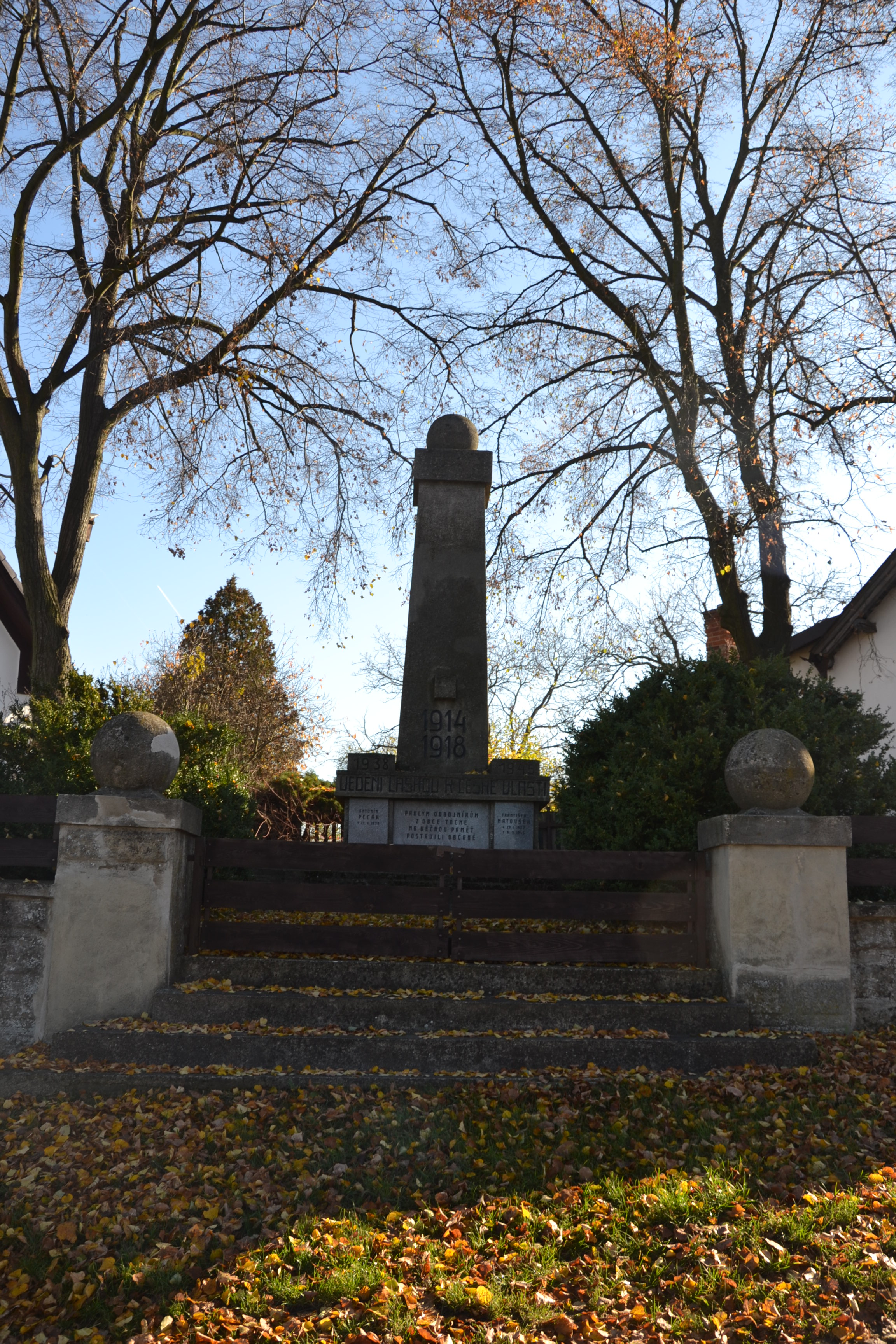 Točná memorial to the fallen in both World Wars